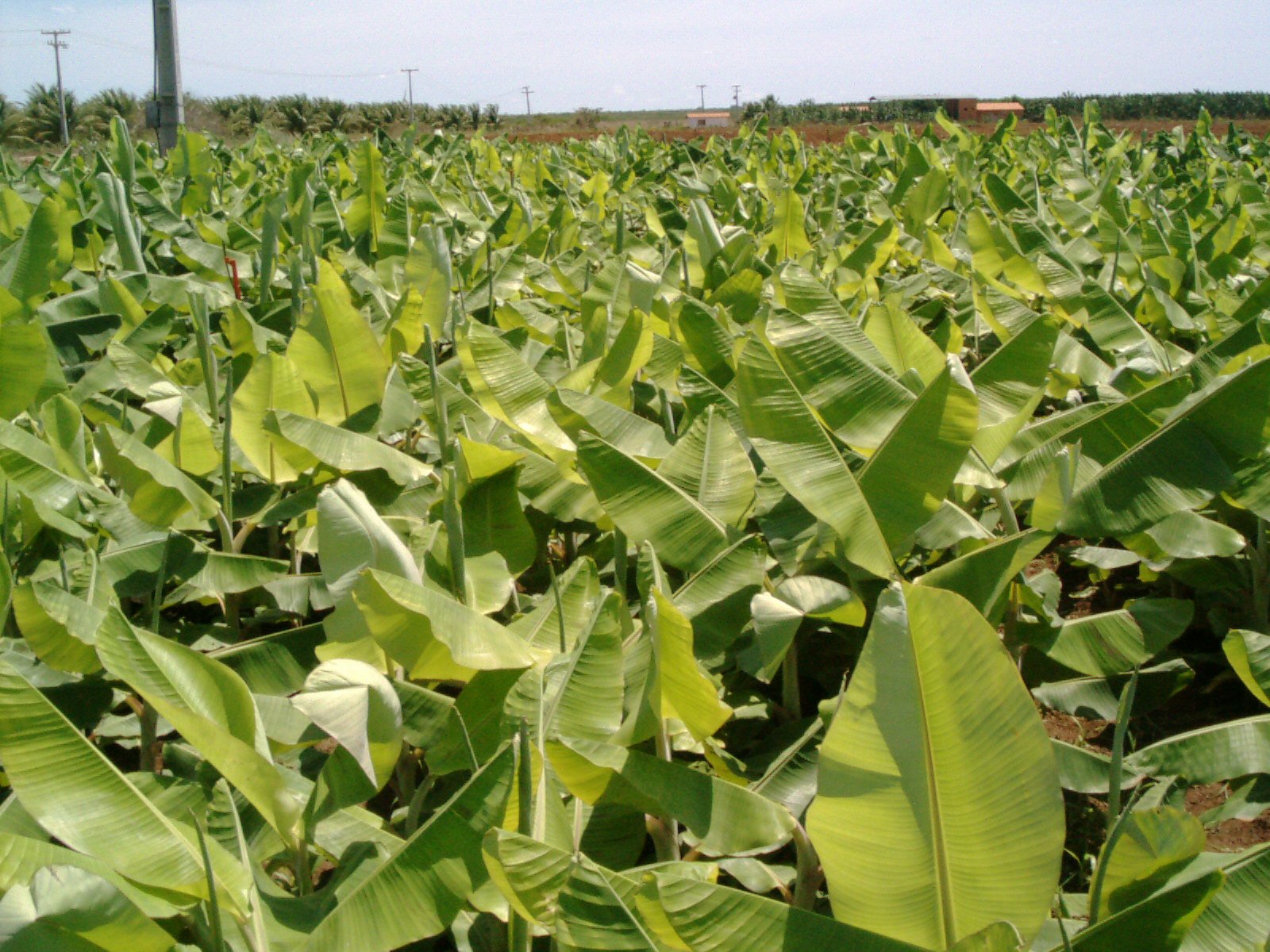 Banana plantation, Bahia, Brazil